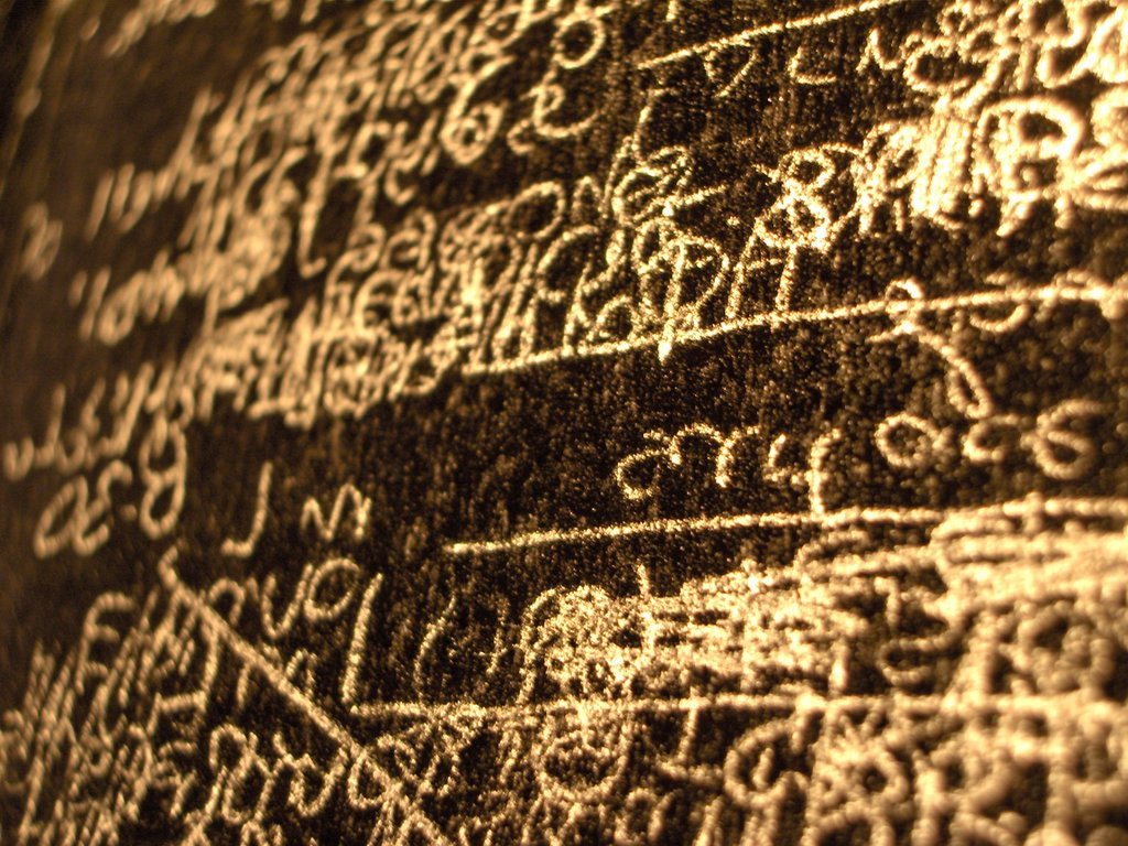 Backlit carbon paper scribbled with chemistry pH labwork.